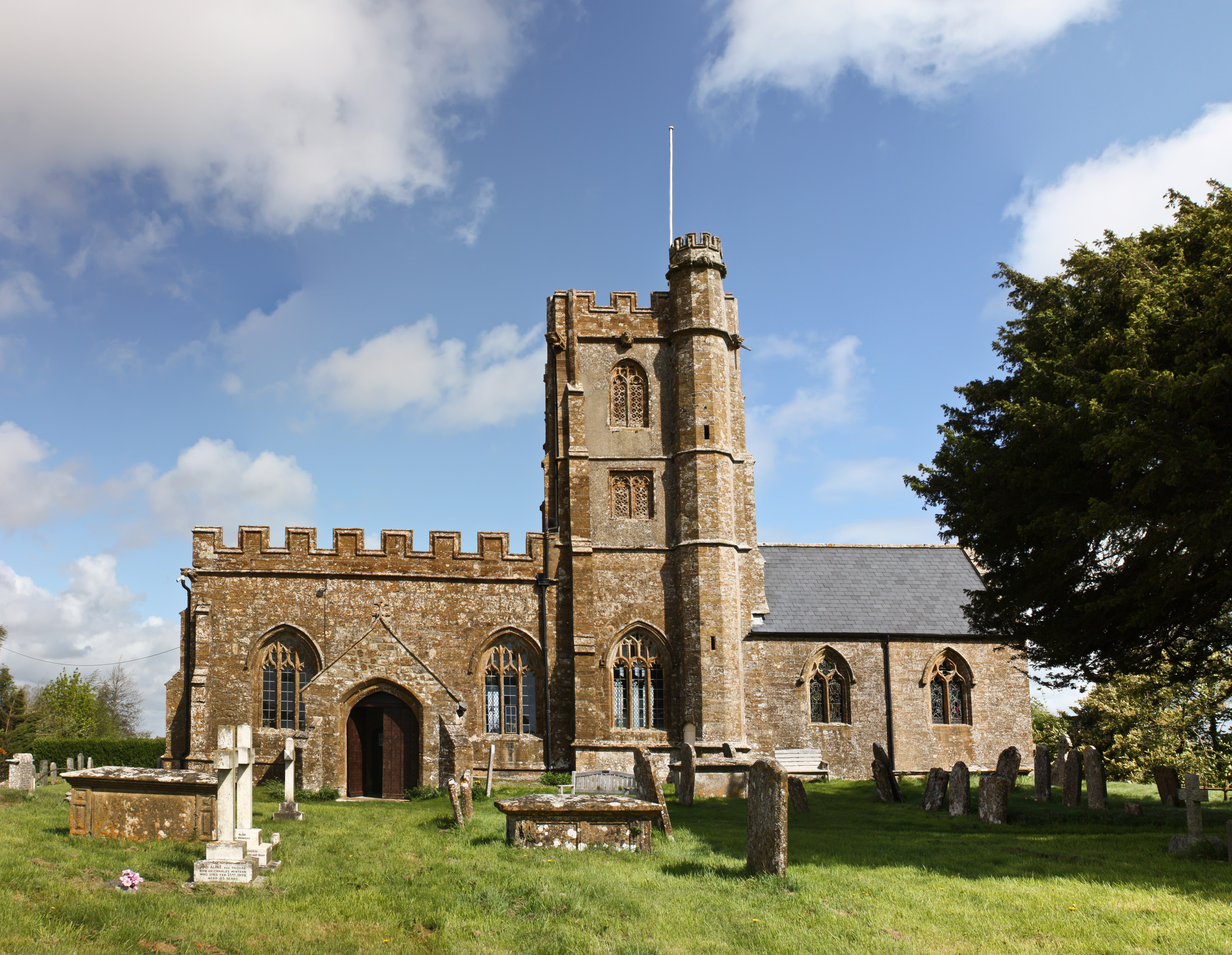 Parish church of St John the Evangelist and All Saints, Kingstone, Somerset, seen from the south. Image stitched from nine separate photographs.